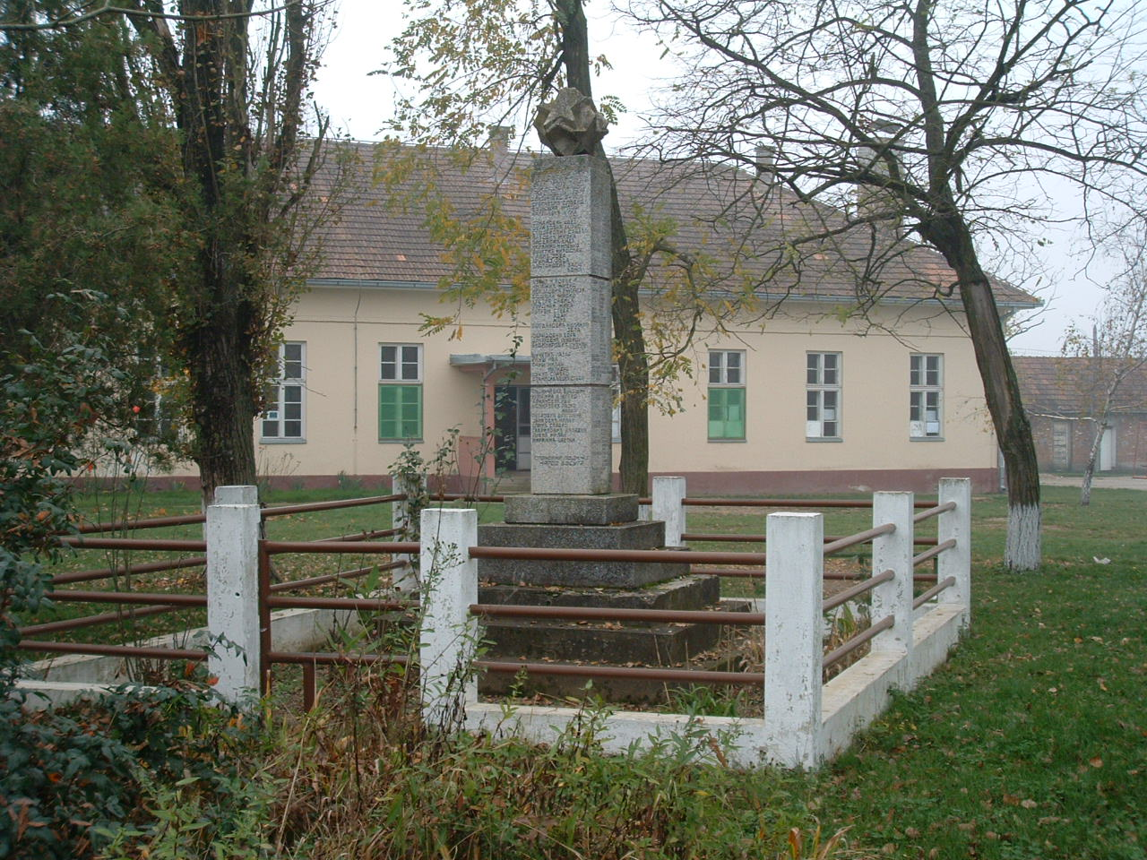 Bosut - The Monument in Front of Village School